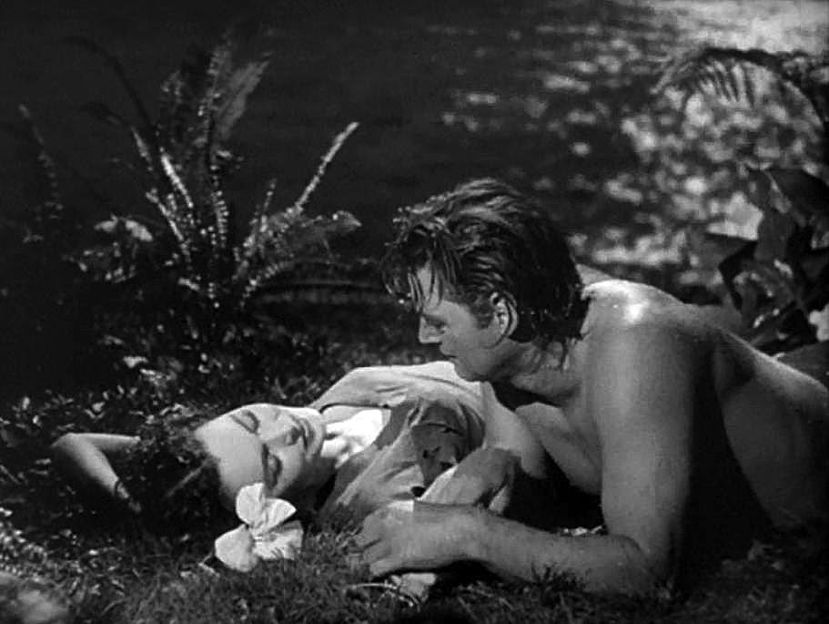 Maureen O'Sullivan & Johnny Weissmuller in Tarzan's Secret Treasure - trailer (cropped screenshot)